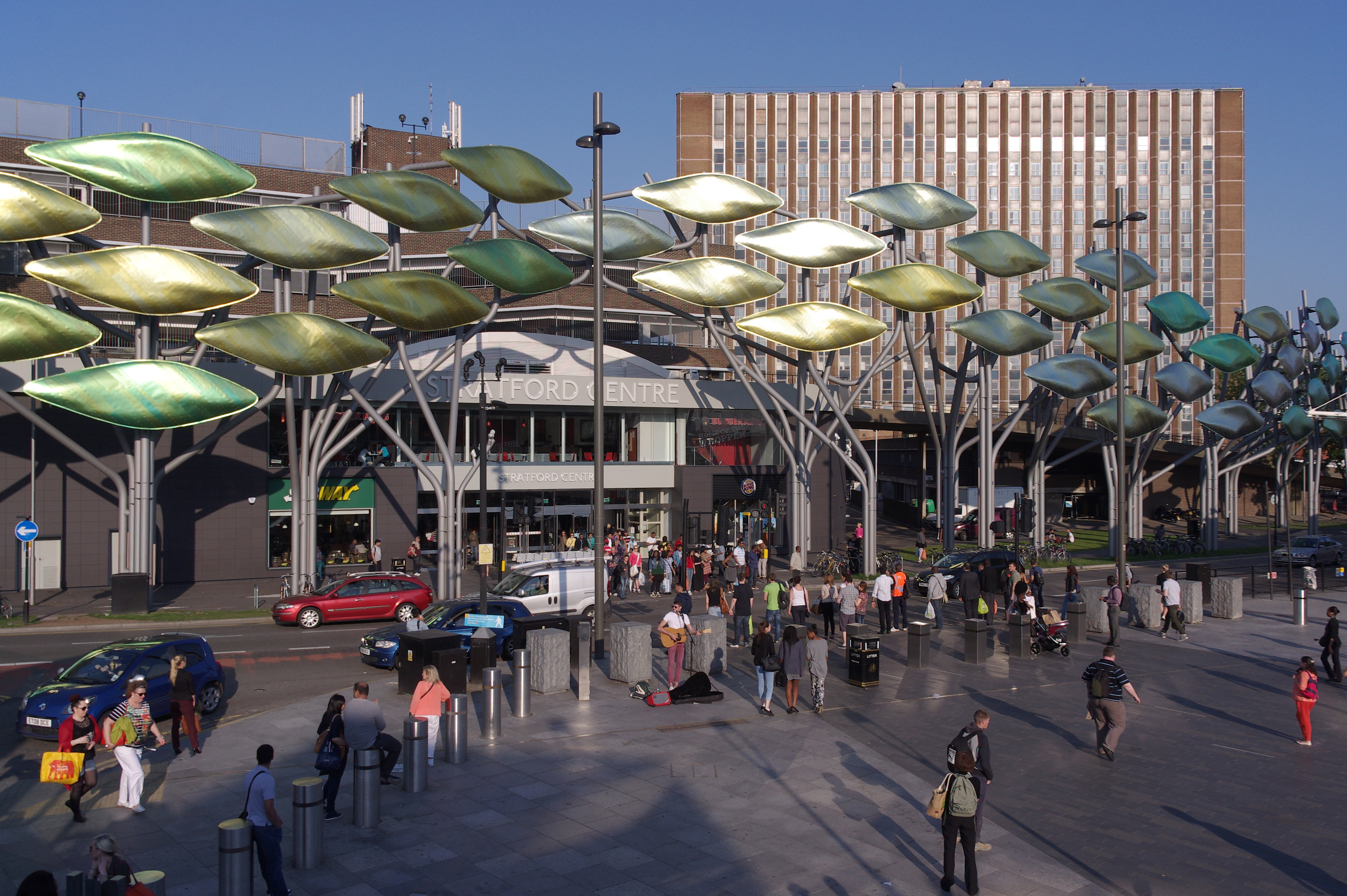 The artistic trees of the Stratford Centre reflect the evening sunlight.